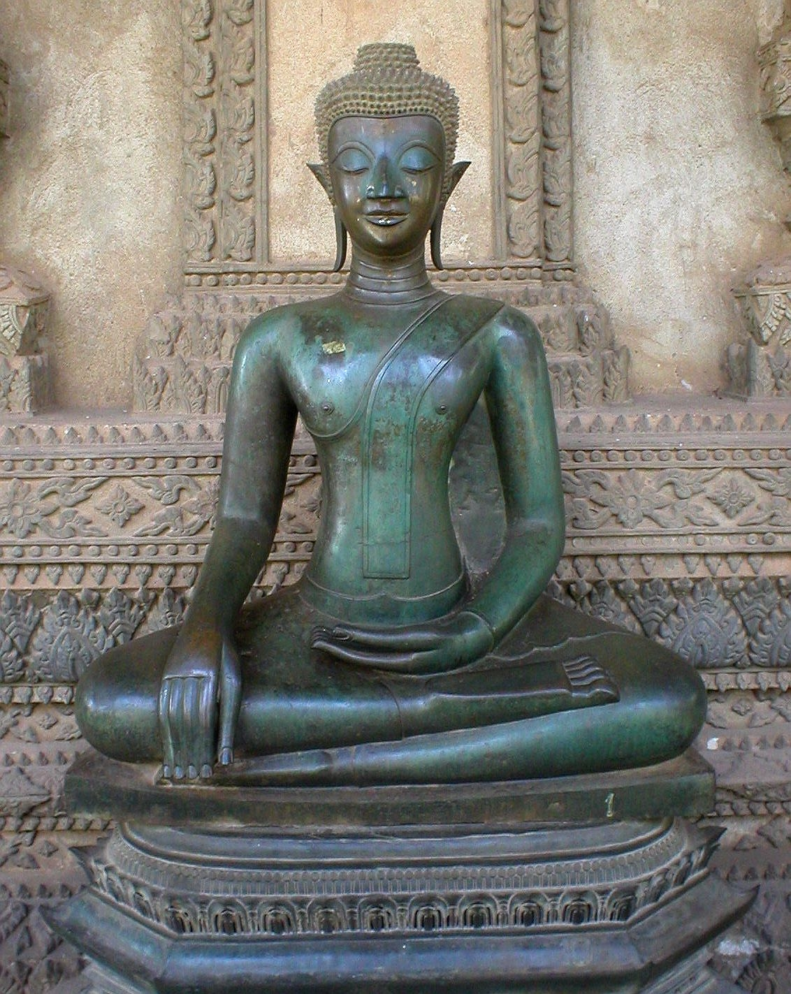 Museum of Ho Phra Keo (Vientiane, Laos). Bouddha statue, bronze XVIII th century (outside gallery). Myself-made picture. January 2006 Siren-Com 04:15, 25 January 2006 (UTC)